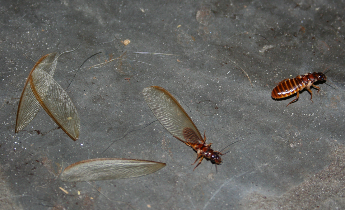 Two termites in the process of shedding their wings after mating in Maun, Botswana.